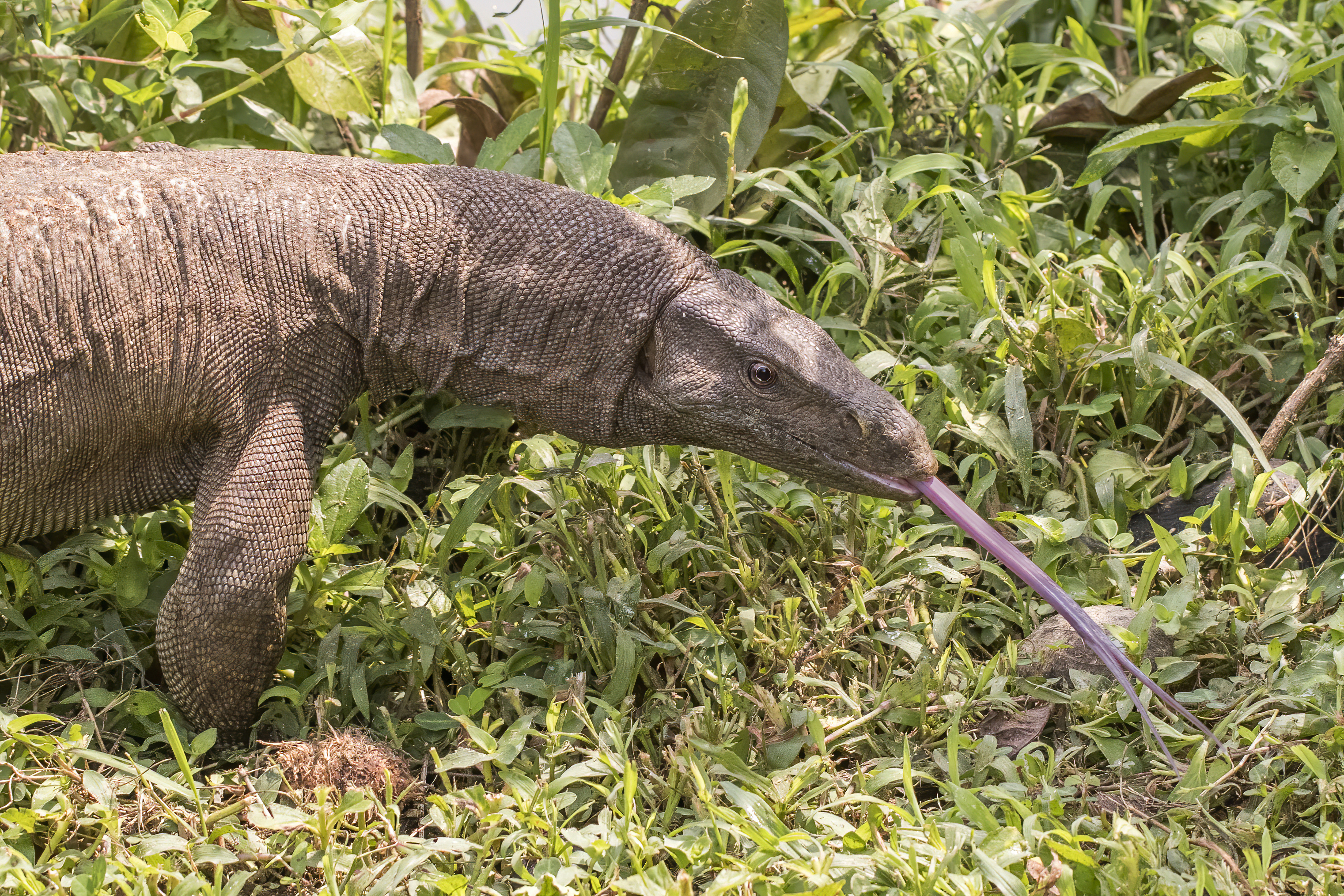 Common Indian monitor (Varanus bengalensis), Kumarakom, Kerala, India